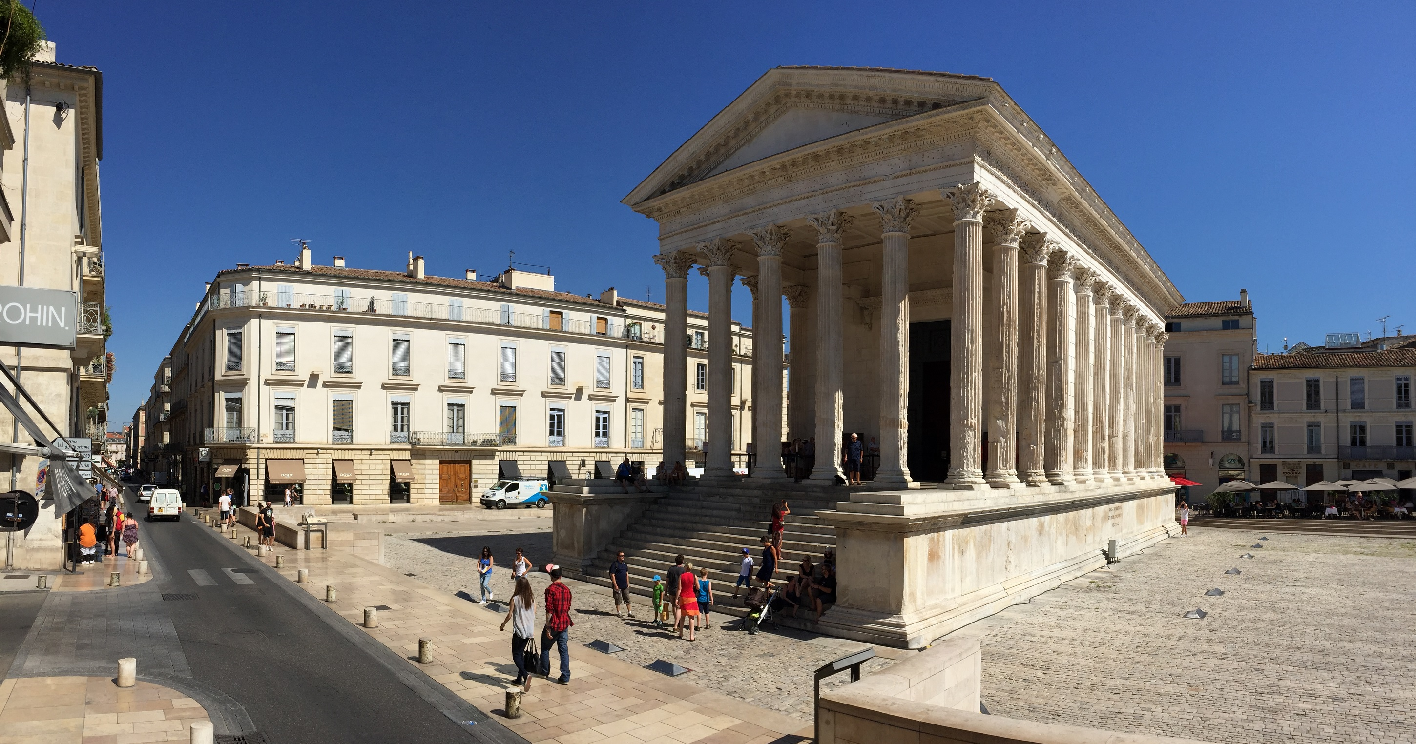 Maison Carrée, Nîmes, France